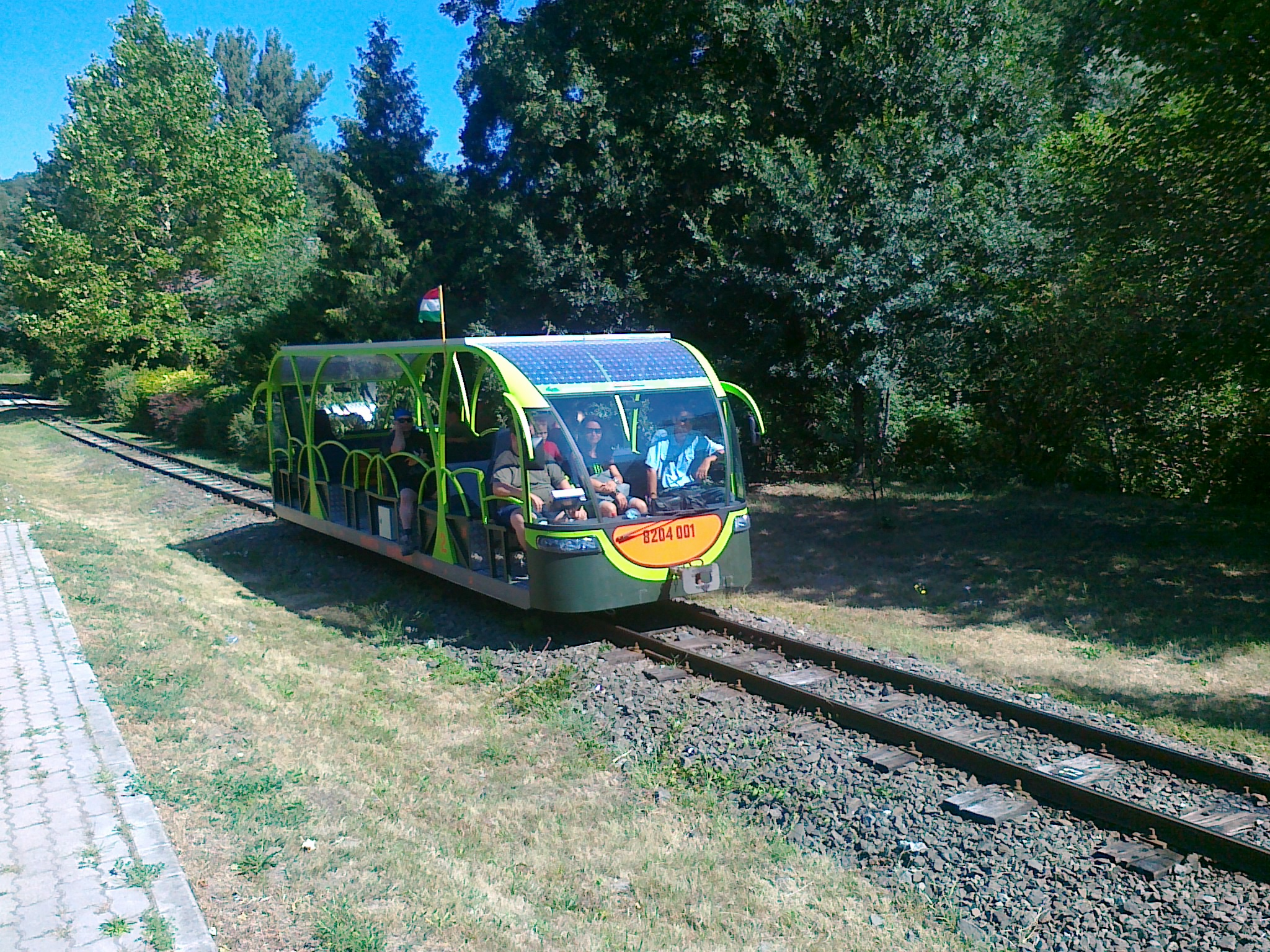 Solar-powered wagon in Királyrét Forest Railway, Hungary